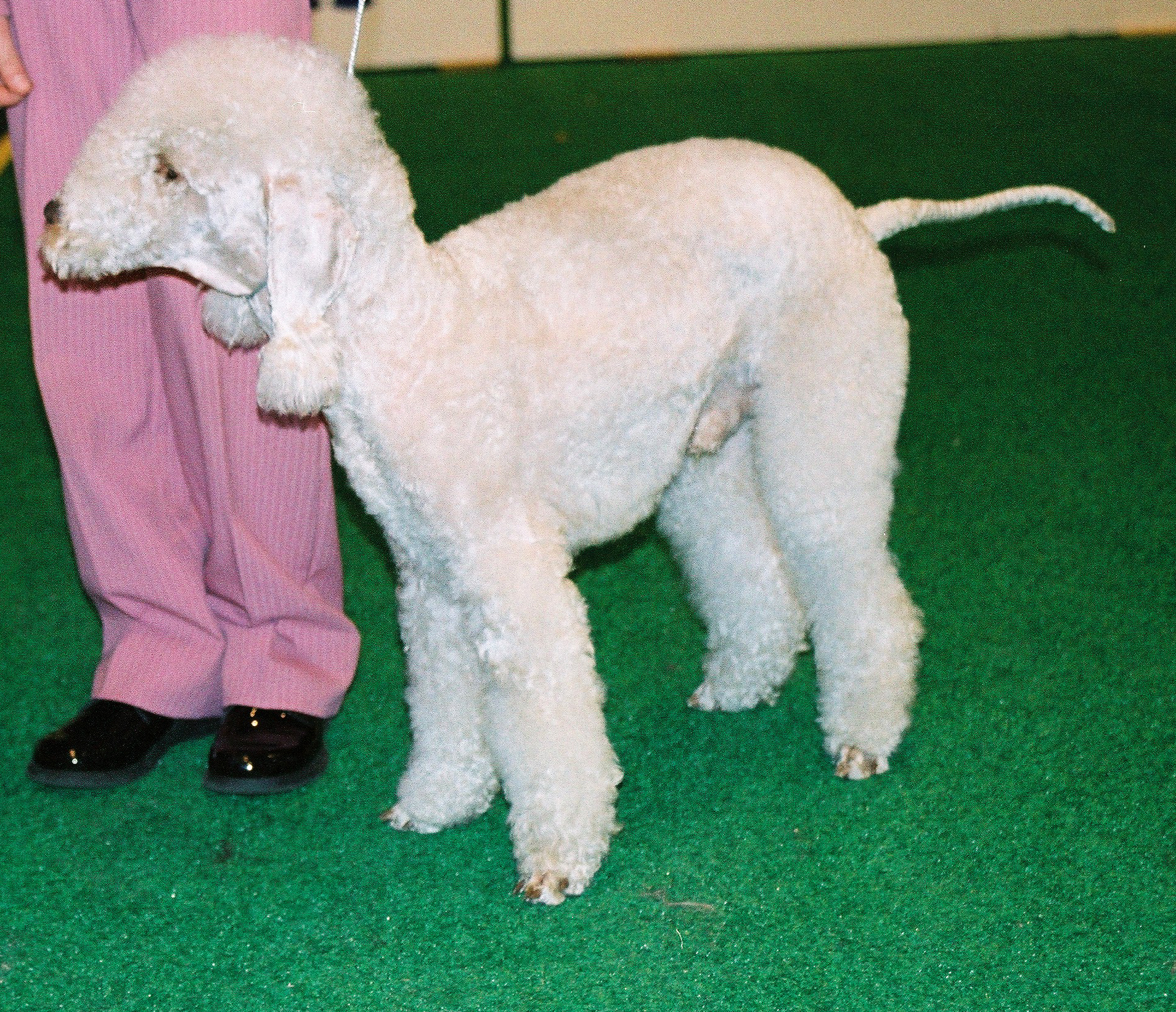 Bedlington terrier 234